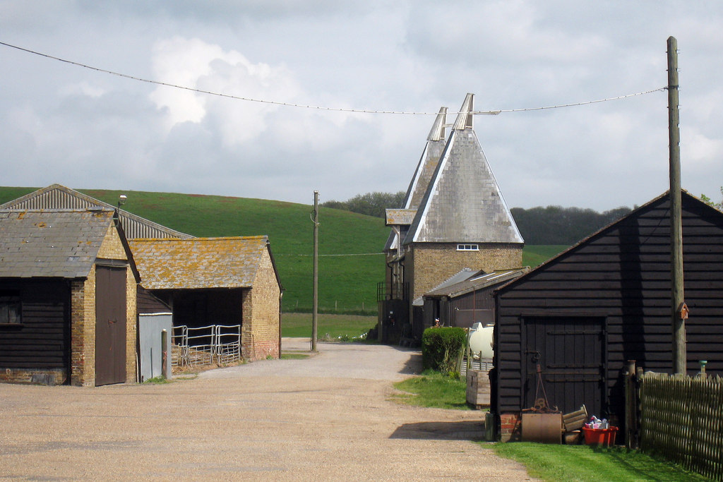 Oast House at Ford Manor Farm, Ford, Hoath, Kent, viewed from the west.